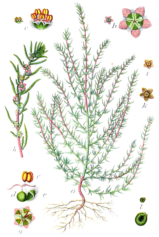 Original Caption Sand-Kochie, Kochia arenaria